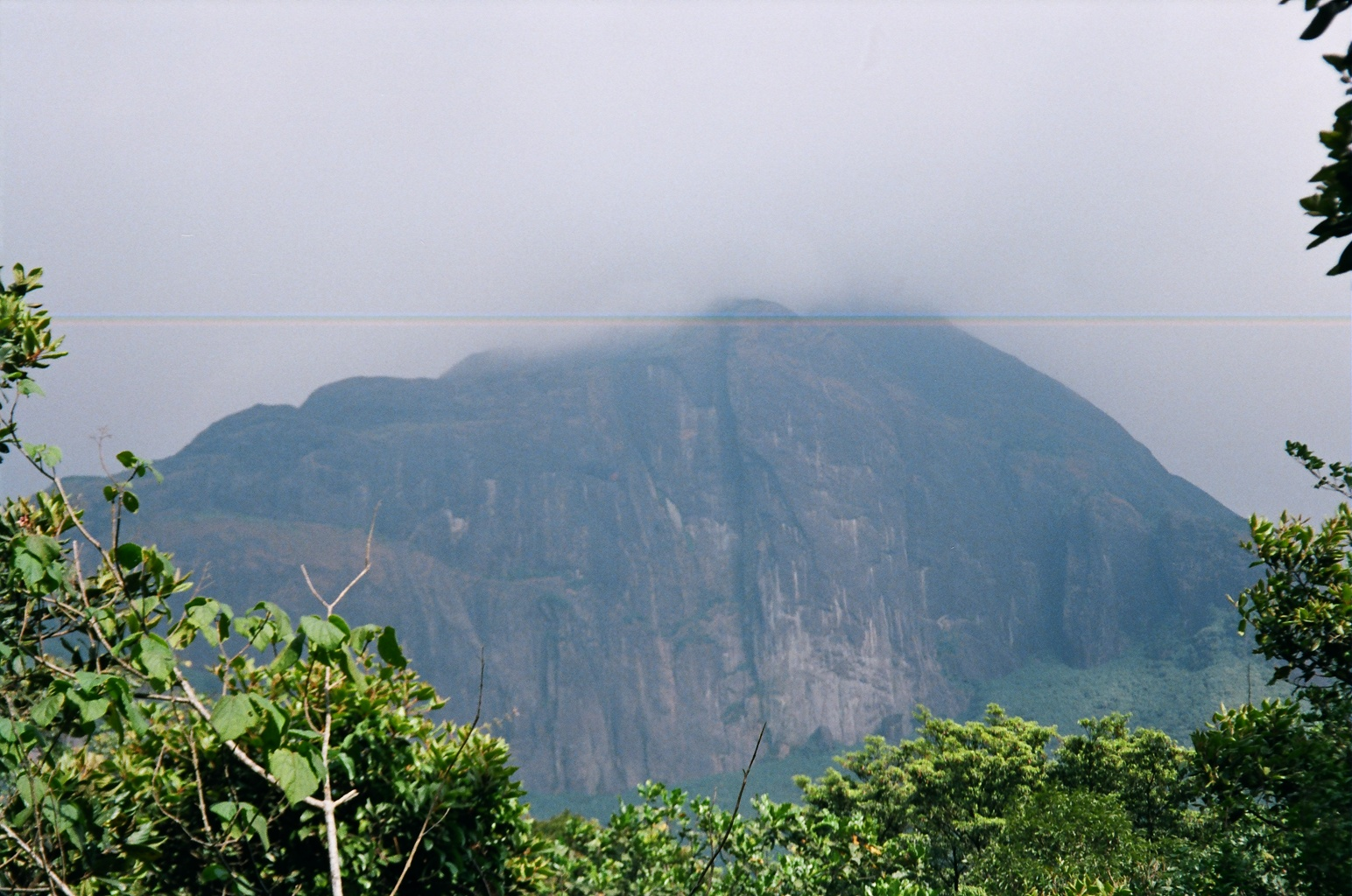 Agasthyarkoodam View from base camp.